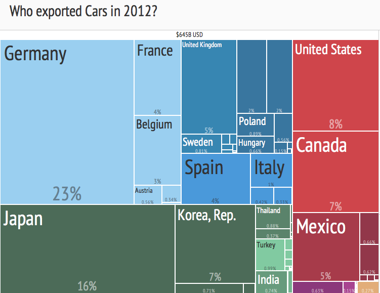 2012 Automobile Export Treemap